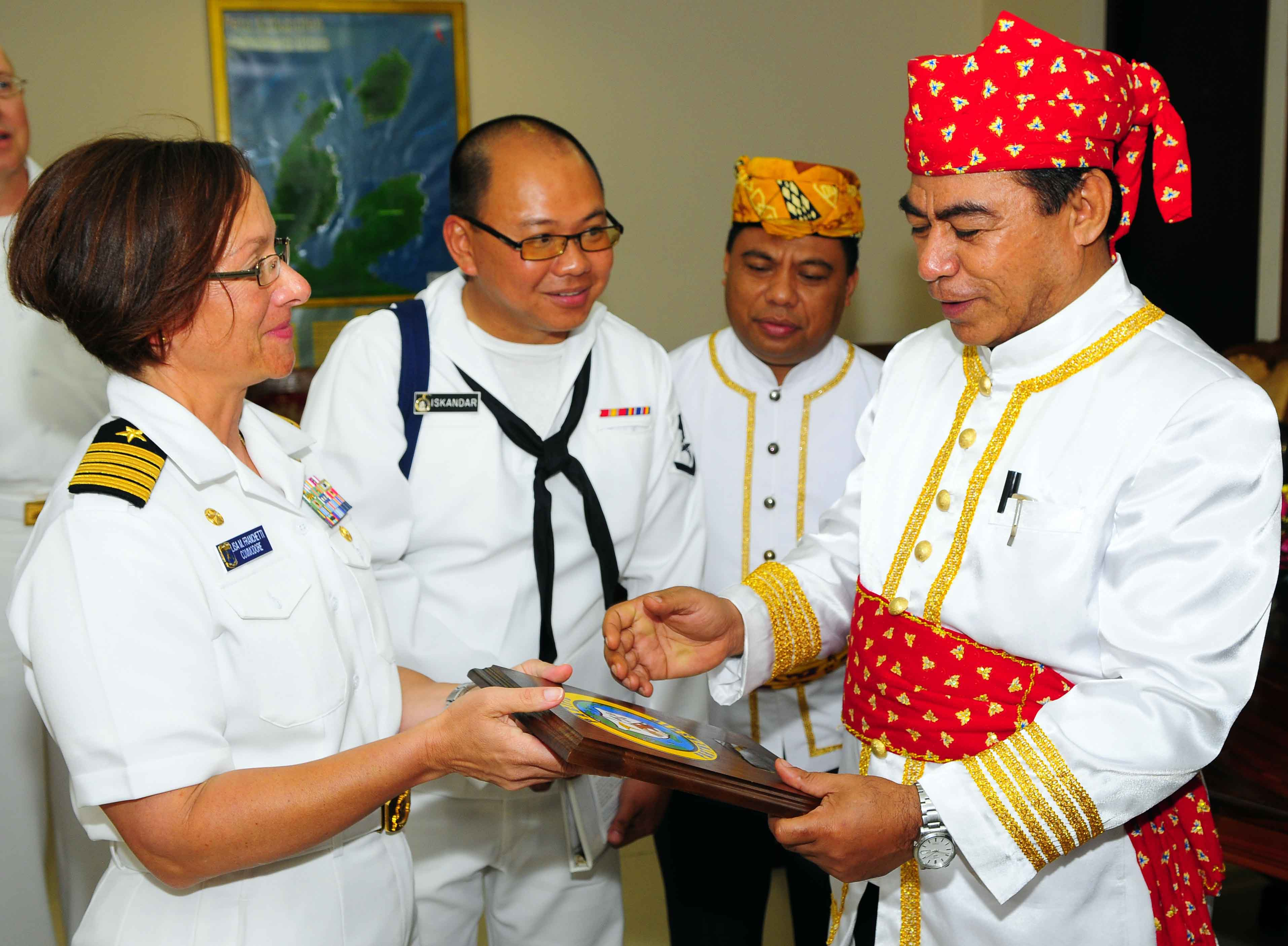 TOBELO, Indonesia (July 13, 2010) Capt. Lisa M. Franchetti, commander of Pacific Partnership 2010, presents a plaque to Indonesian official Hein Namotemo, marking the beginning of operations by crew members of the Military Sealift Command hospital ship USNS Mercy (T-AH 19) in support of Pacific Partnership 2010. Pacific Partnership 2010 is the fifth in a series of annual U.S. Pacific Fleet humanitarian and civic assistance endeavors to strengthen regional partnerships. (U.S. Navy photo by Mass Communication Specialist 3rd Class Matthew Jackson/Released)